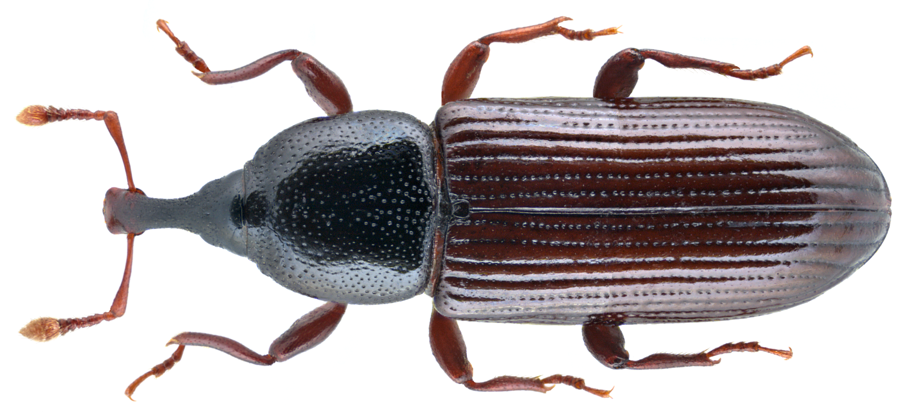 Family: Curculionidae Size: 6,3 mm (4,5-6,3 mm) Origin: Europe Ecology: in rotten wood of deciduous trees Location: Germany, Bavaria, Upper Franconia, Kulmbach leg.det. U.Schmidt, 25.V.1997 Photo: U.Schmidt, 2013